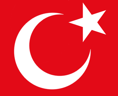 Aircraft insigniused on some aircraft of the Naval Air Service of the late Ottoman Empire 1914–1916.